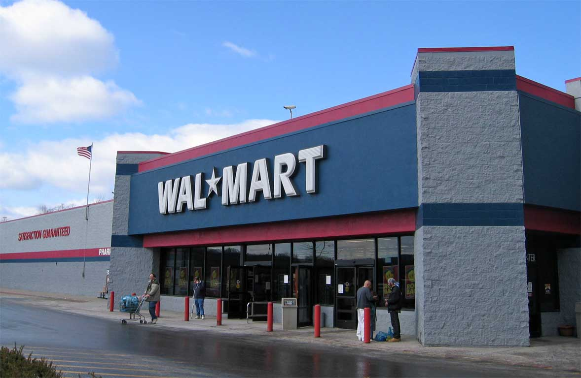 This is a selfmade image from the english wikipedia. The photographer has uploaded it as GFDL